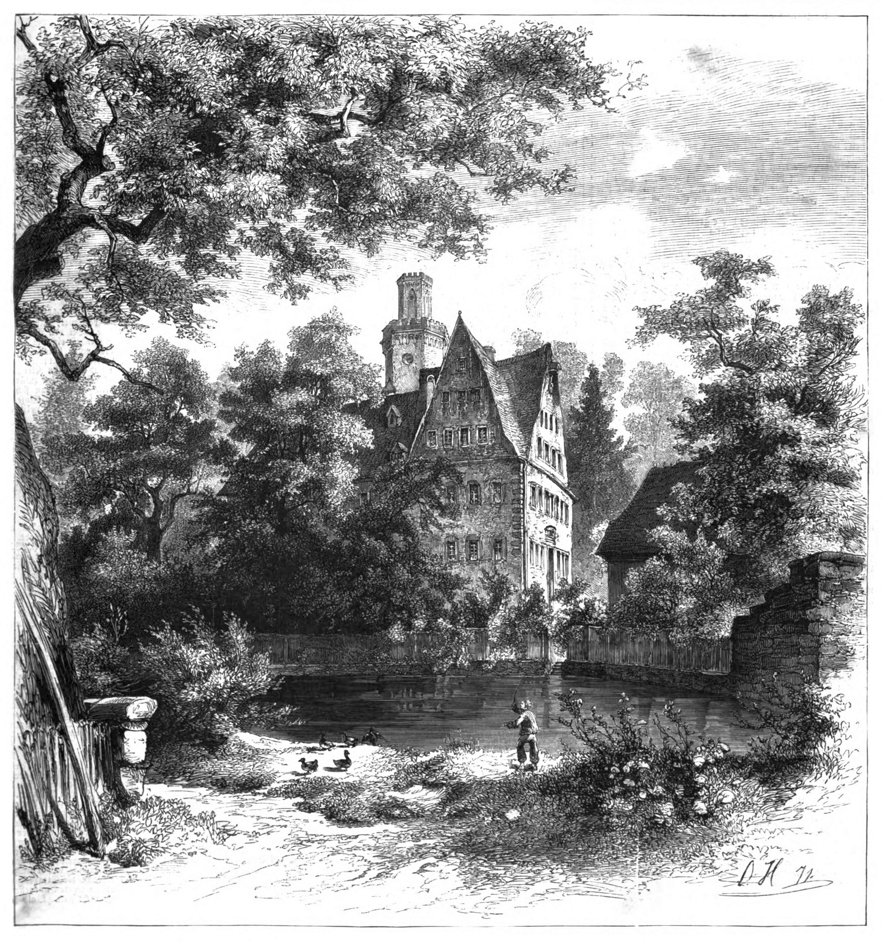 Original caption: Schloss Poschwitz near Altenburg, seat of the family of linguists von der Gabelentz. Original drawing by C. Heyn.